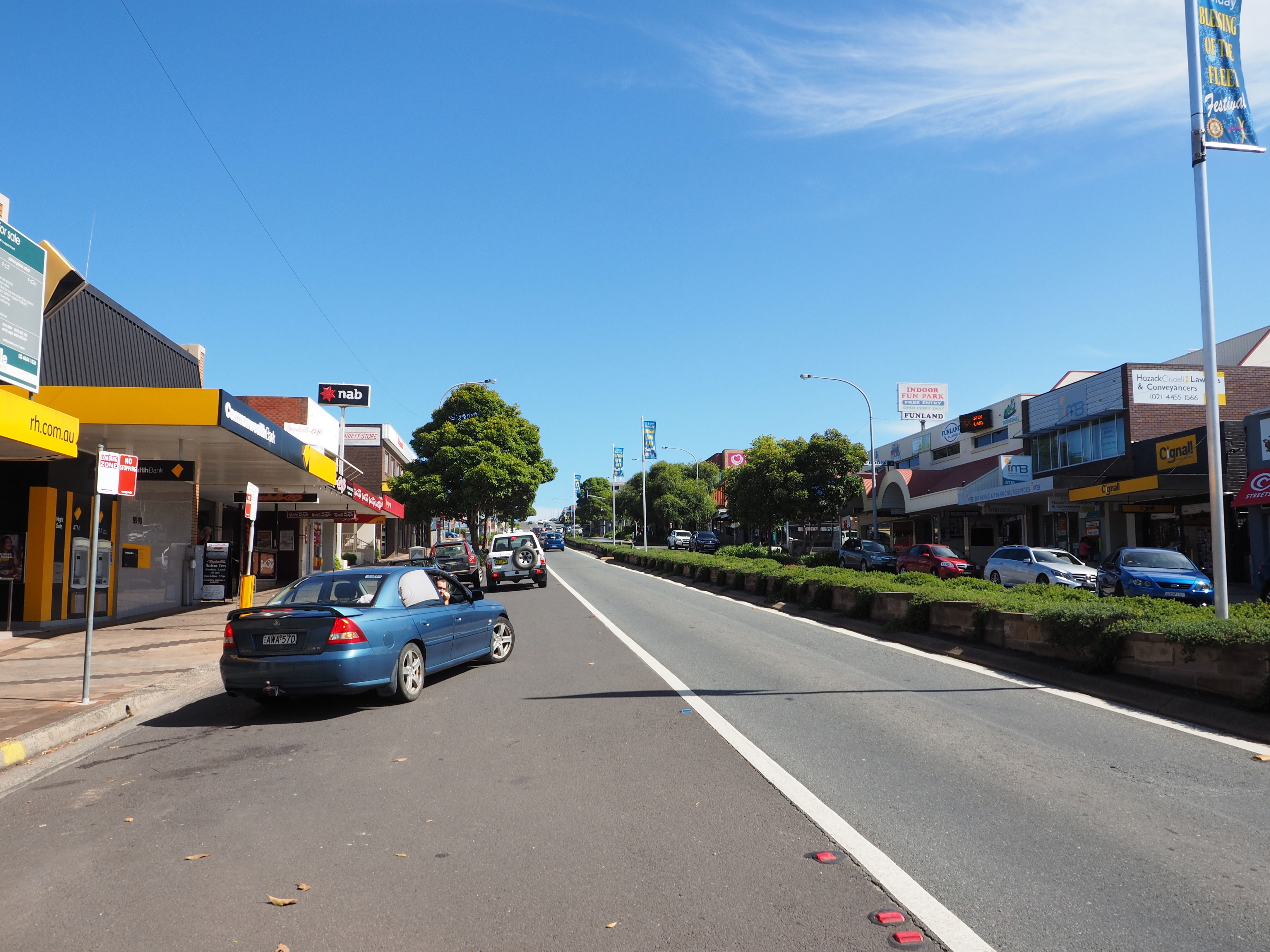 Looking south along the Princes Highway near its corner with Green Street in Ulladulla